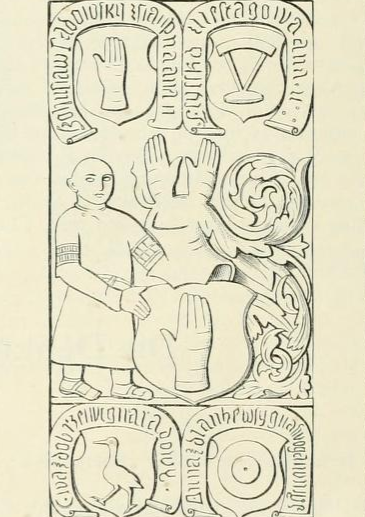 Boguslav Sadovski